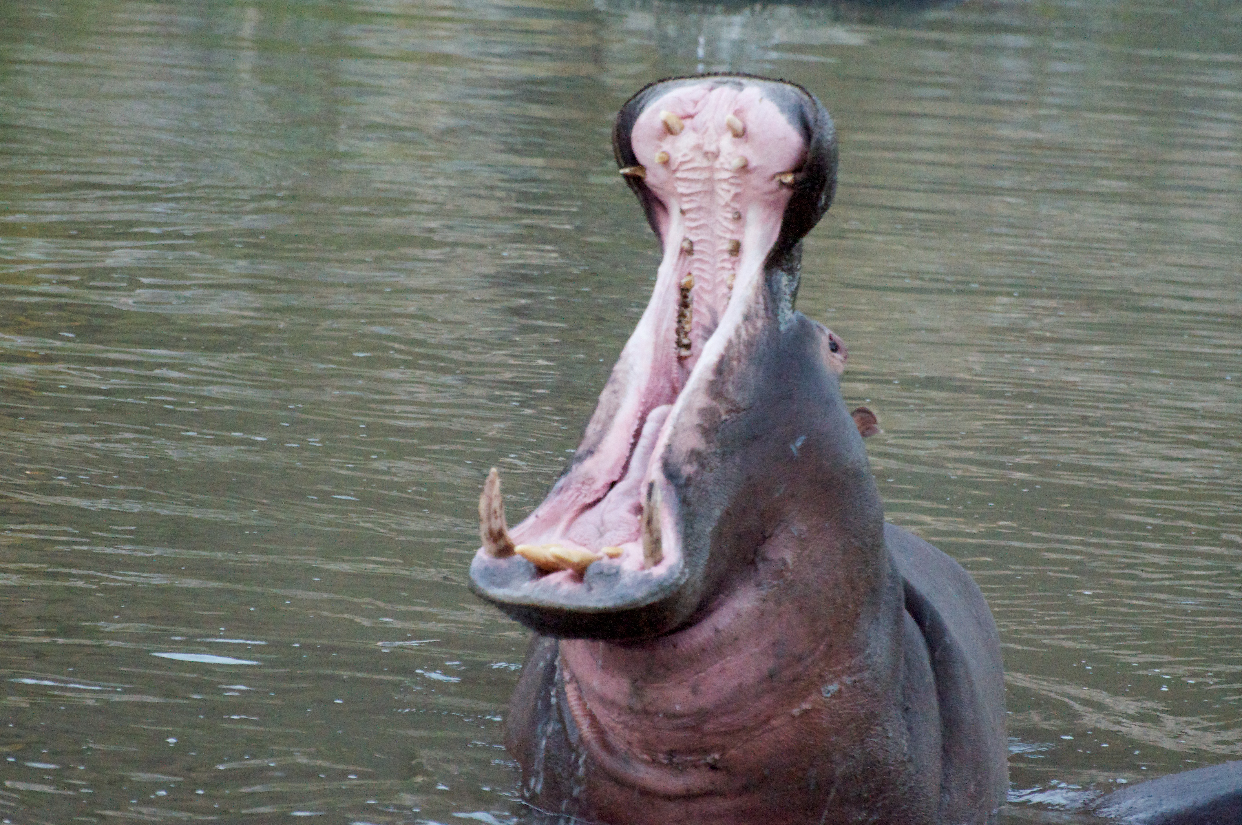 Hippo yawning